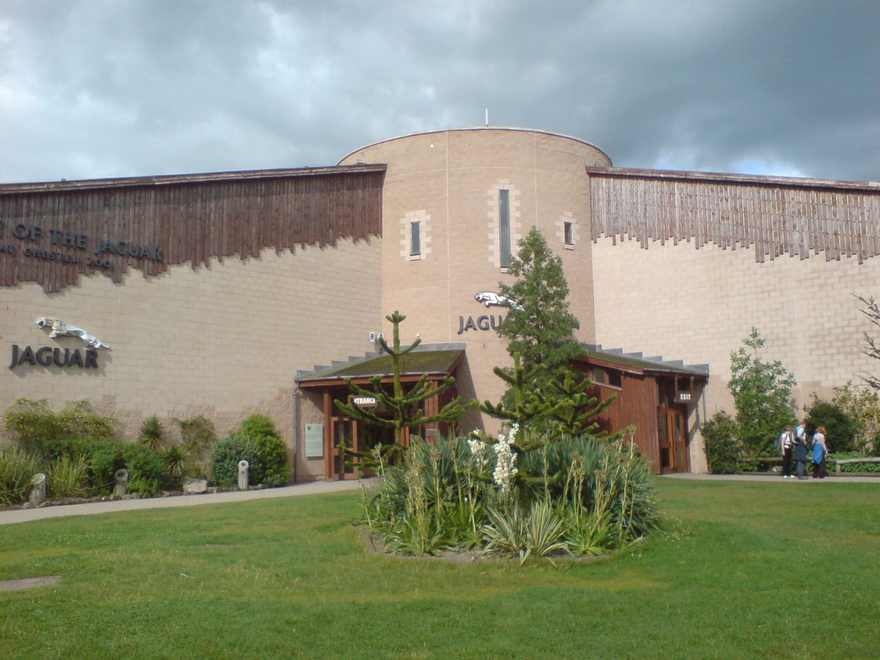 The Jaguar Building at Chester Zoo, England, 2009.